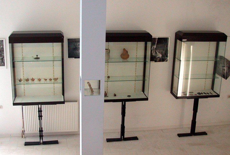 Showcases displaying artefacts of the Hittite civilization, image from the Historical and Ethnographical Museum of the Cappadocian Greeks, Nea Karvali, East Macedonia, Greece